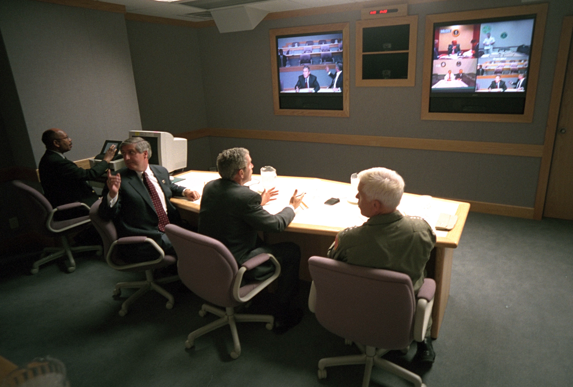 President George W. Bush, White House Chief of Staff Andy Card (left), Donald Richards (far left) and Admiral Richard Mies conduct a video tele-conference at Offutt Air Force Base in Bellevue, Nebraska. U.S. National Archives’ Local Identifier: P7093-16